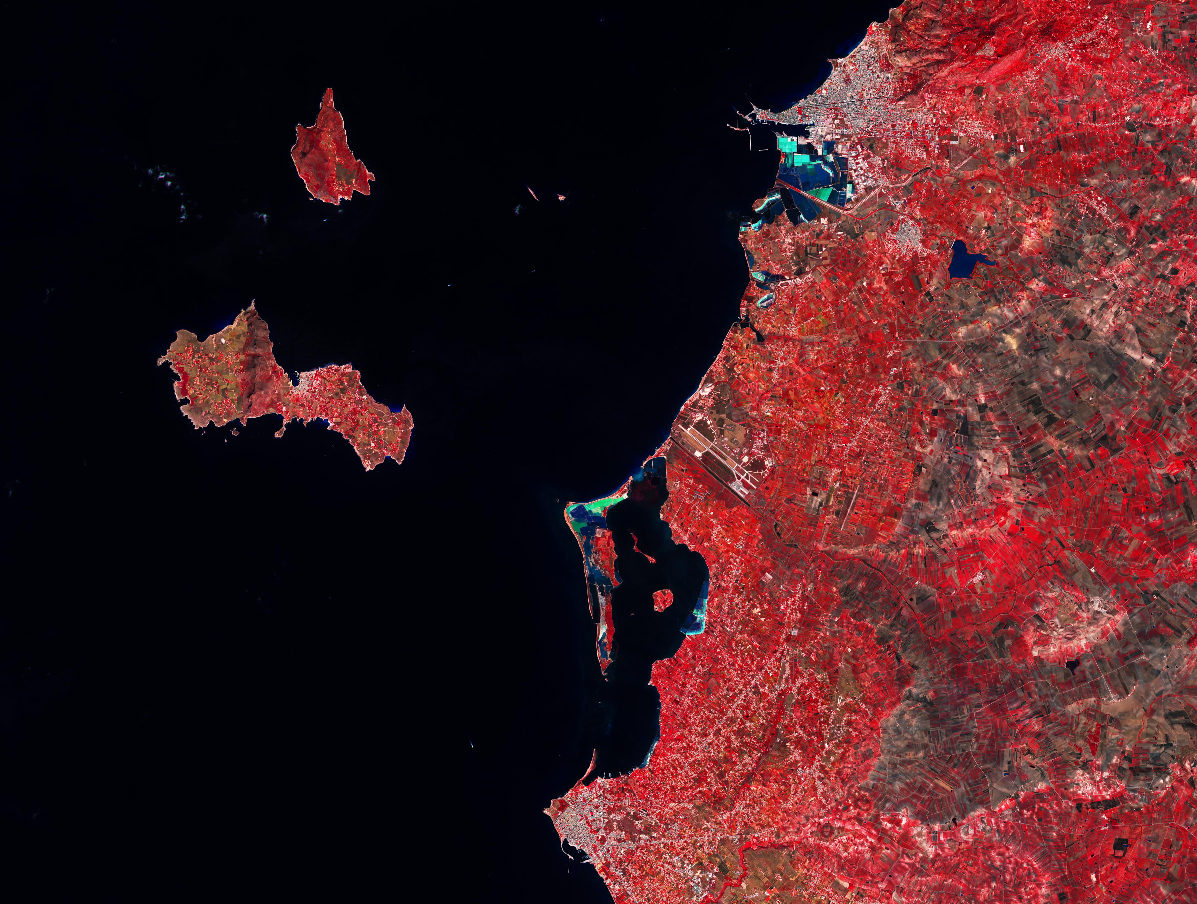 Captured on 3 September 2018 by the Copernicus Sentinel-2A satellite, this image shows part of western Sicily in Italy and two of the main Aegadian Islands: Favignana and Levanzo. This false-colour image included the near-infrared channel and was processed in a way, that makes vegetation appear in bright red. The bright turquoise colours, near the port city of Trapani, at the top of the image, and the Isola Grande in the middle of the image, depict salt marshes. Both the Saline di Trapani e Paceco Nature Reserve and the Stagnone Nature Reserve with their shallow sea waters, windy coast and abundant sunshine, make the area between Marsala, at the bottom of the image, and Trapani an ideal place for salt production. The reserve consists of more than 1000 hectares of landscape dotted with windmills, migratory birds such as flamingos and light-red lagoons visible in summer. This greenish-blue colour is heavily contrasted with the black of the open Mediterranean Sea. The islands, off the coast, are rich in history, both boasting Paleolithic and Neolithic cave paintings. The most famous being the Grotta del Genovese on the picturesque island of Levanzo, at the top left of the image. The cave was discovered only in 1949 and is estimated to be between 6000 and 10 000 years old. Below, the butterfly-shaped island of Favignana, known for its tuna fisheries and a type of limestone known as tufa rock, is the largest of the Aegadian islands. In 241 BC, one of the Punic Wars’ naval battles was fought at the Cala Rossa (Red Cove), named after the bloodshed. Copernicus Sentinel-2 is a two-satellite mission. Each satellite carries a high-resolution camera that images Earth’s surface in 13 spectral bands. The mission is mostly used to track changes in the way land is being used and to monitor the health of our vegetation. This image is also featured on theEarth from Space video programme.